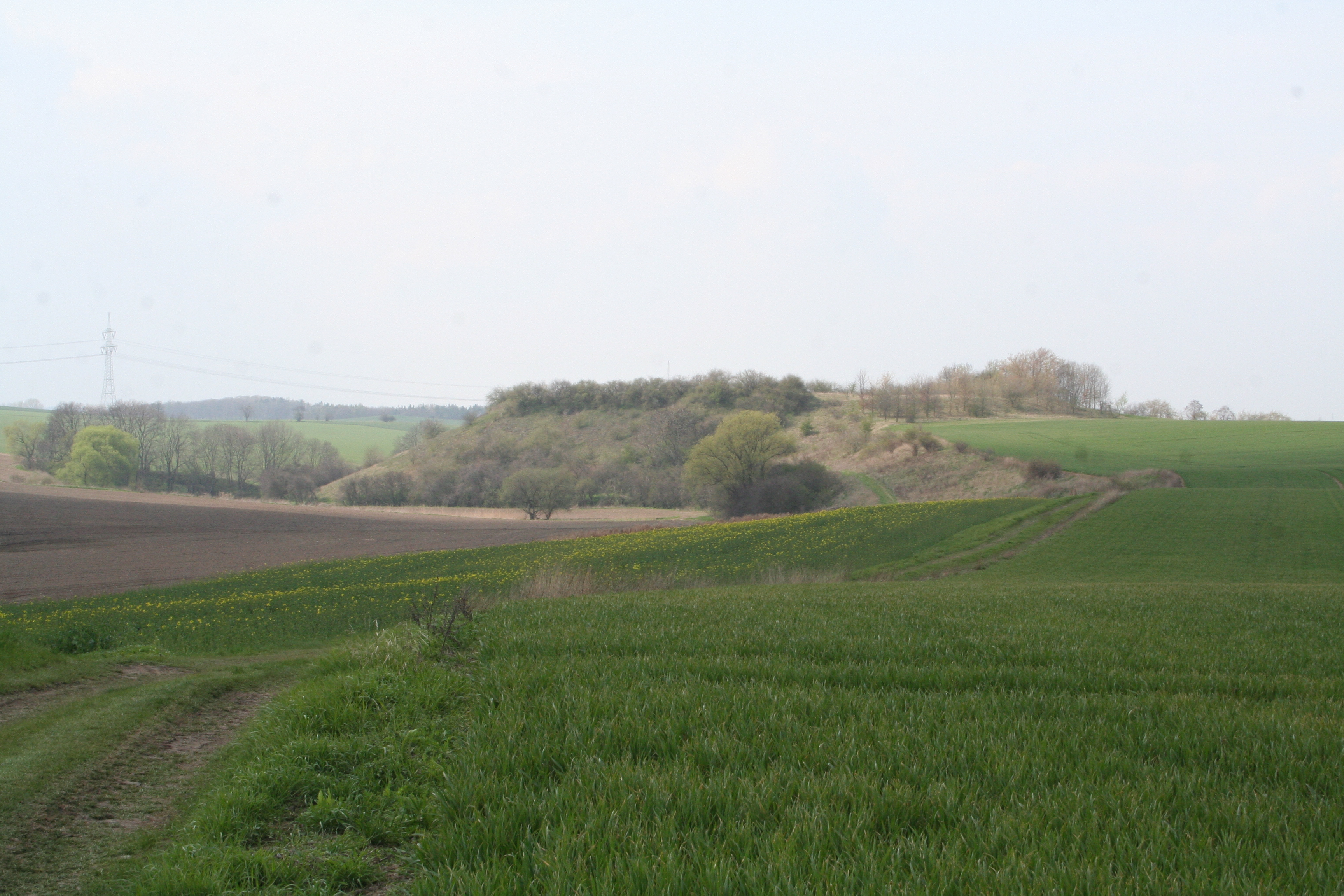 Schalkenburg near Quenstedt